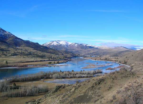 Lower Flathead River — near the town of Perma, Montana.